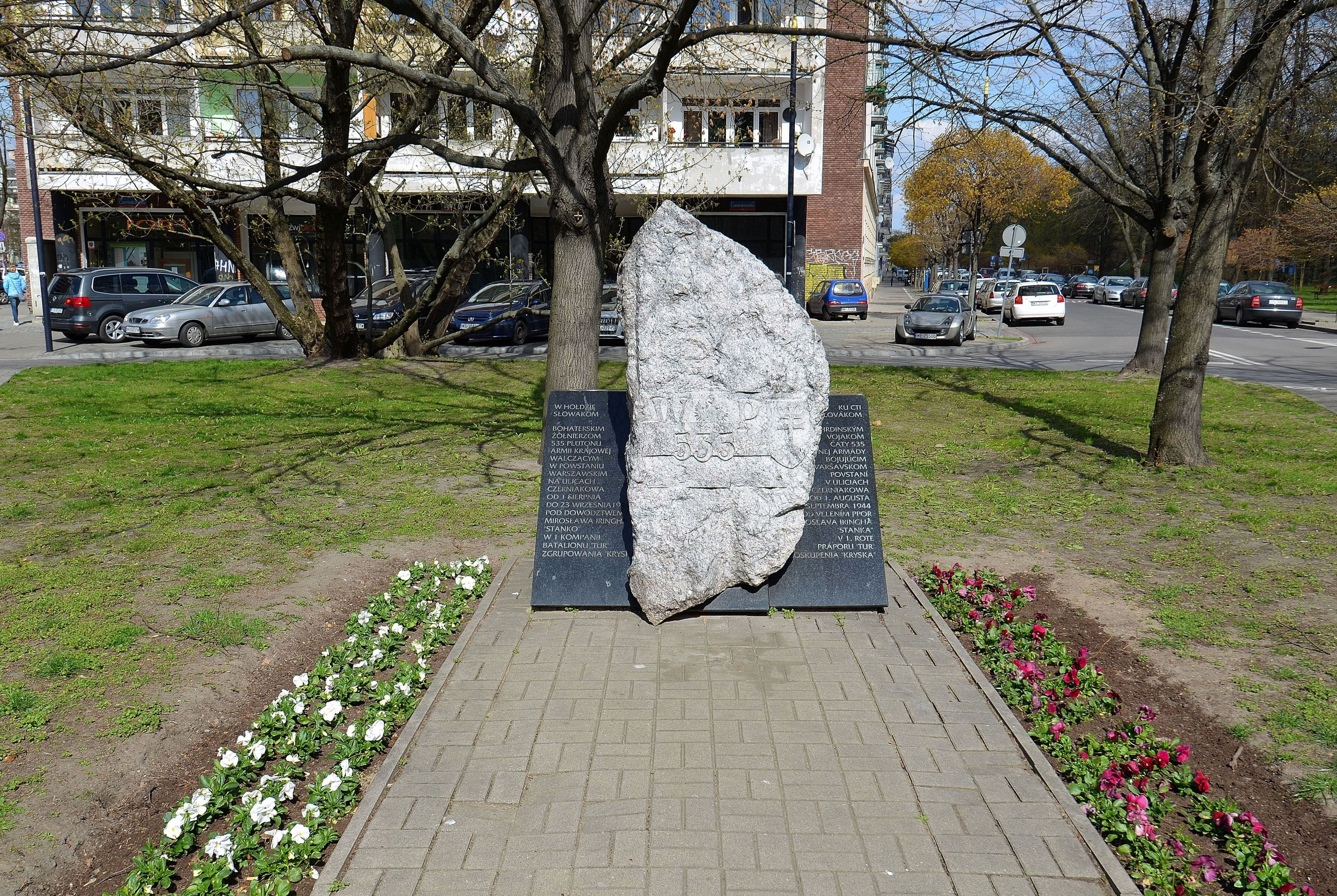 Commemorative square in Miroslav Iringh square in Warsaw